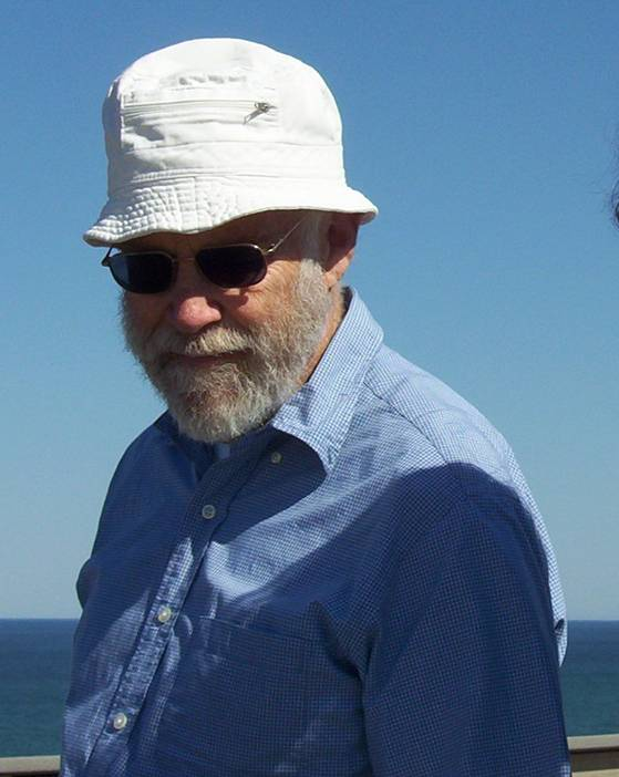 Portrait of Lee Segel in 2004.